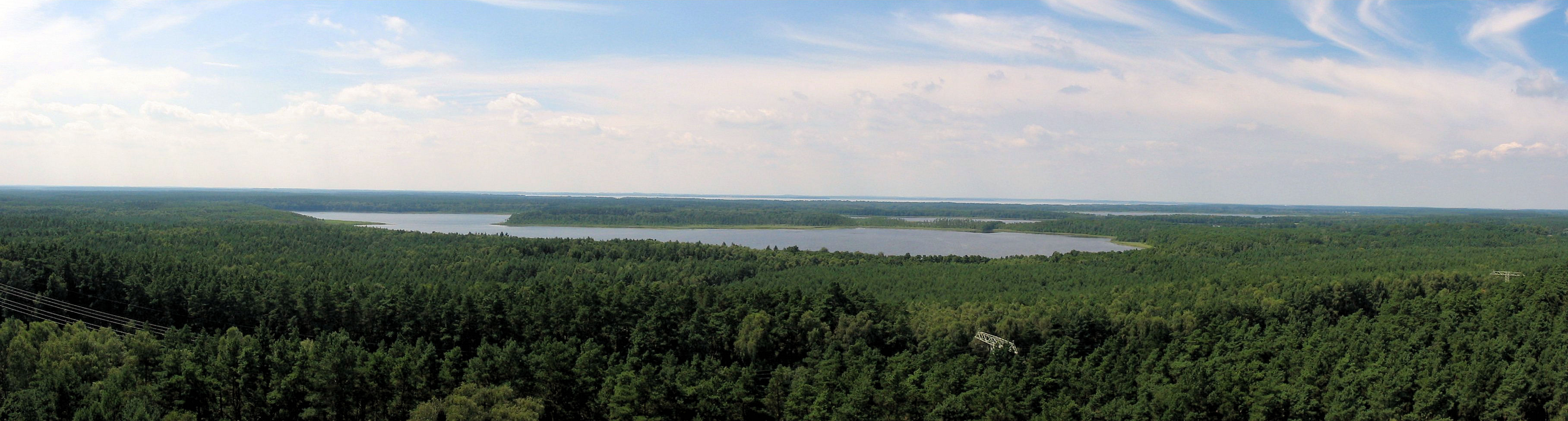 View from the view- and observation tower at hill Käflingsberg in Müritz National Park in Germany to the lakes Priesterbäker See, Hofsee, Specker See and Müritz